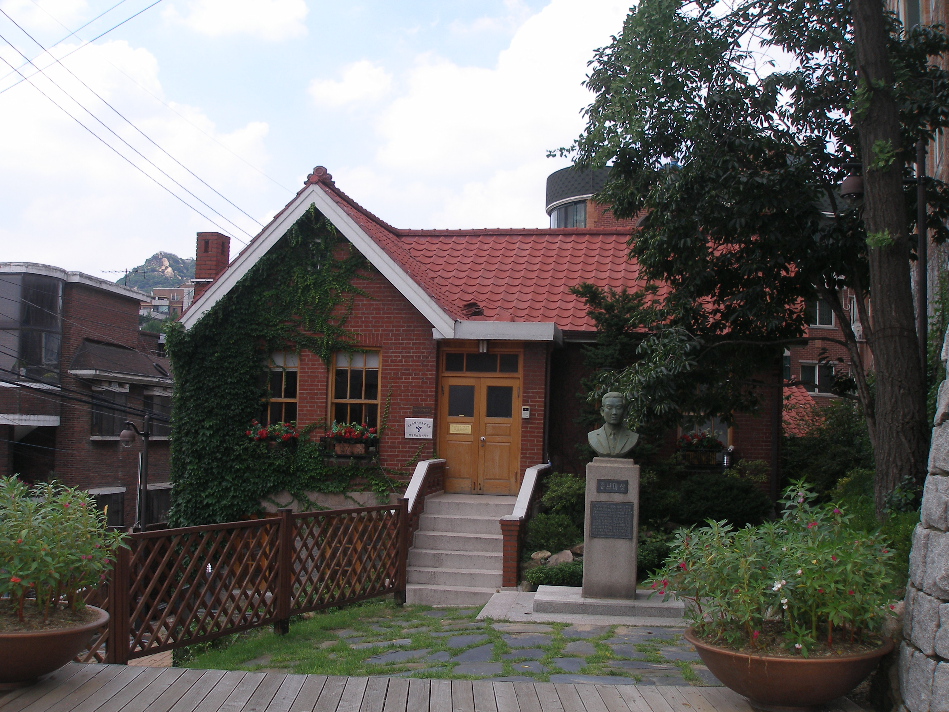 Hong Nanpa's house in Hongpa-dong, Seoul